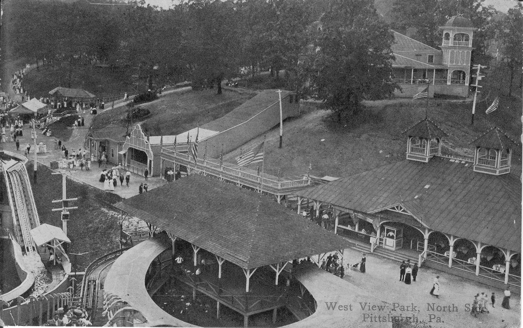 A postcard of West View Park from around 1912